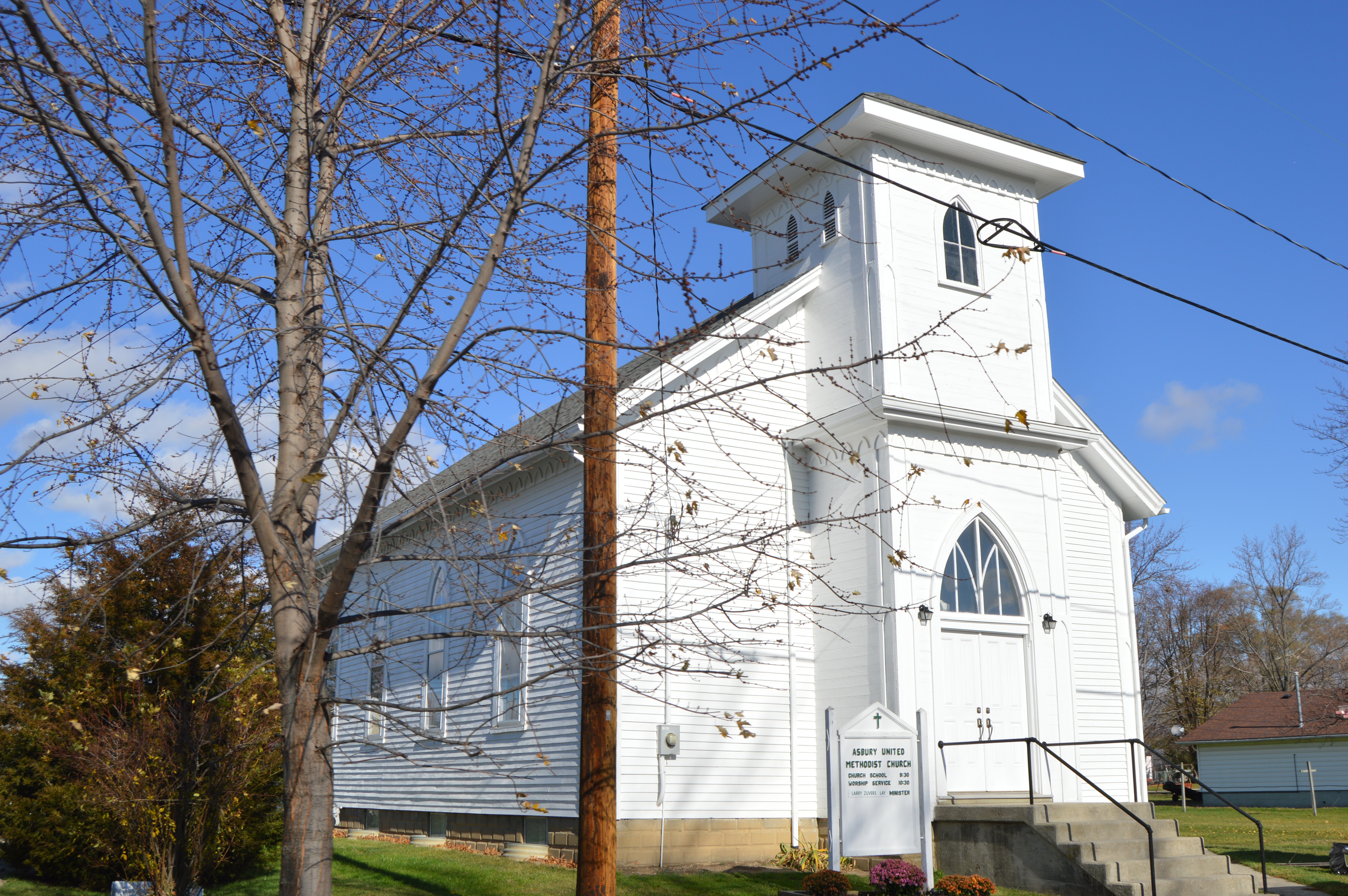 Front and western side of the Asbury United Methodist Church, located at 305 Chicago Street in Williams Center, Ohio, United States.